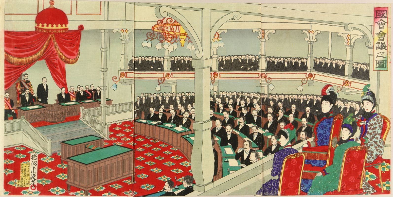 A scene of the Japanese Diet